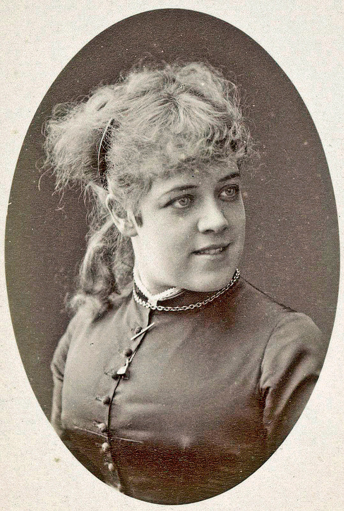 Photograph of the actor Jeanne Samary (1857–1890) by Atelier Nadar, c. 1877